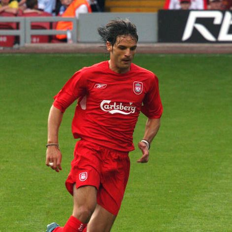 Liverpool footballer Fernando Morientes.